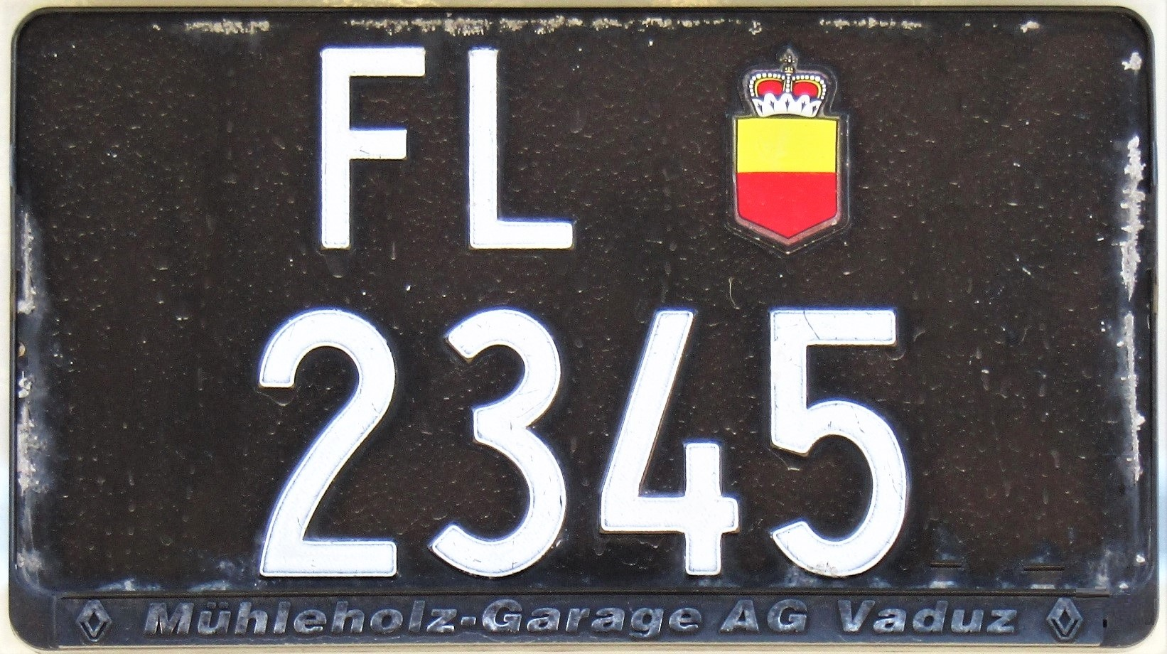 Liechtenstein standard license plate, rear plate, high format (30 x 16 cm).